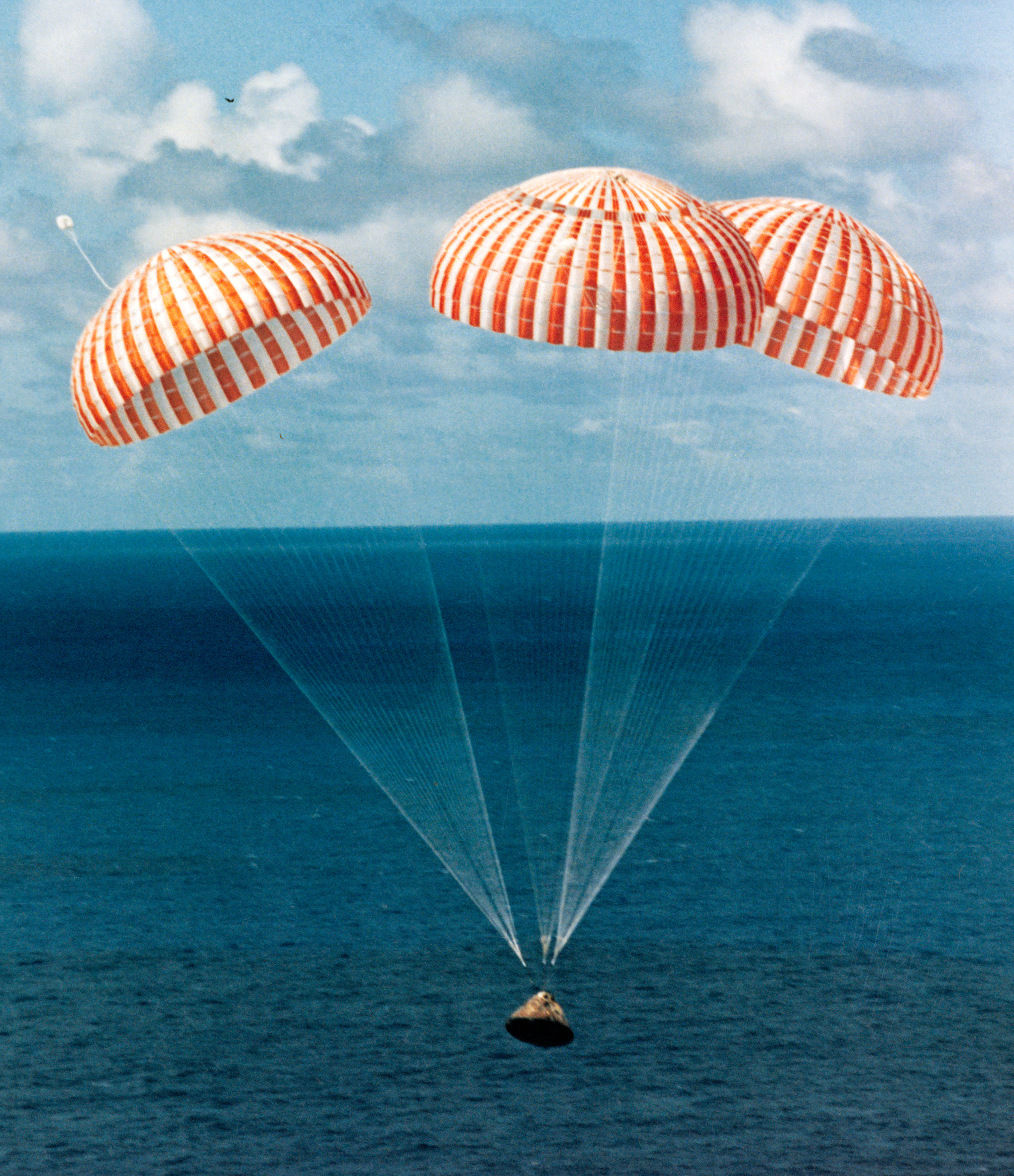 The Apollo 14 Command Module (CM), with astronauts Alan B. Shepard Jr., commander; Stuart A. Roosa, command module pilot; and Edgar D. Mitchell, lunar module pilot, aboard, approaches touchdown in the South Pacific Ocean to successfully end a 10-day lunar landing mission. The splashdown occurred at 3:04:39 p.m. (CST), Feb. 9, 1971, approximately 765 nautical miles south of American Samoa. The three crew men were flown by helicopter to the USS New Orleans prime recovery ship.